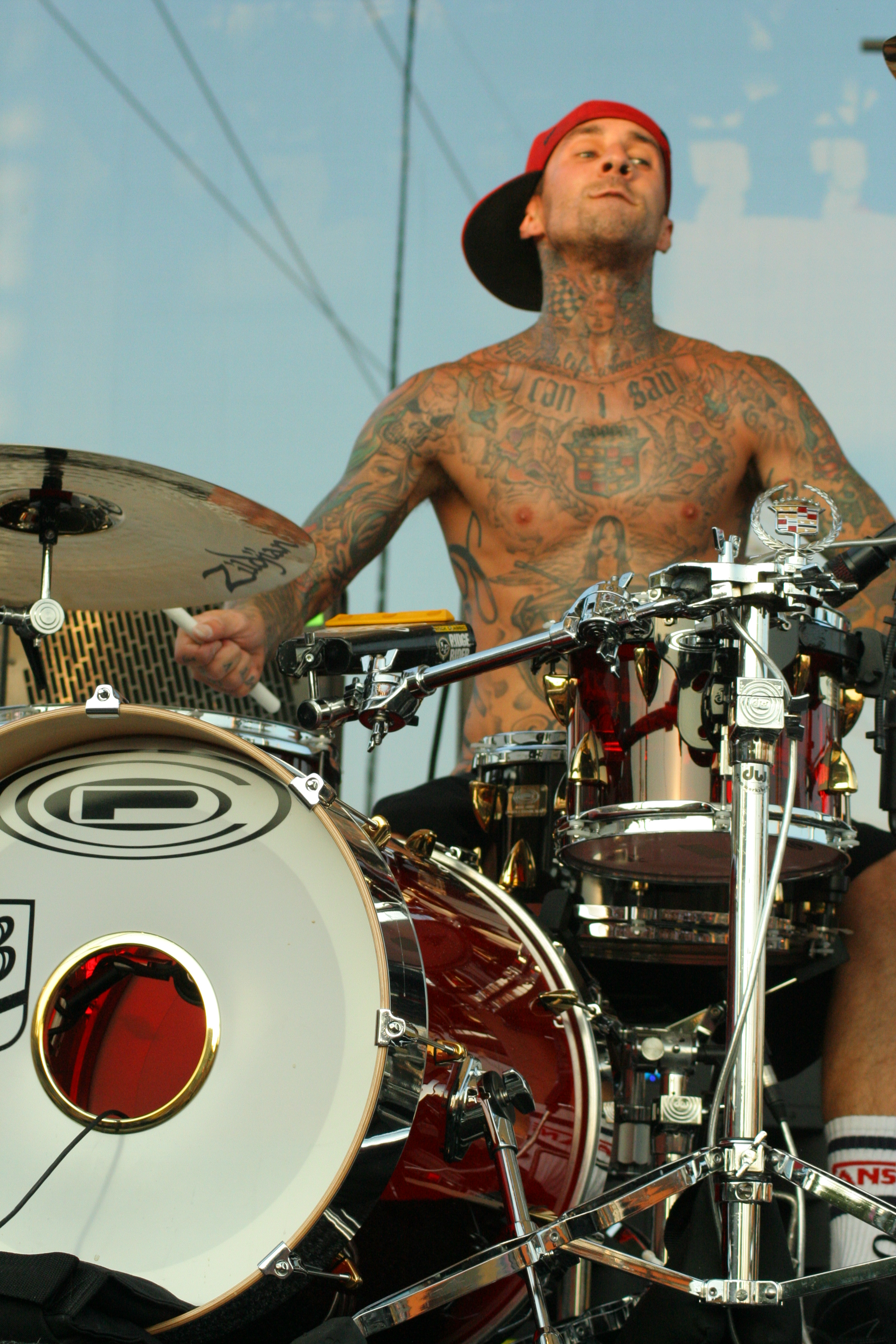 Travis Barker with DJAM at the TMobile Block Party in Columbia, SC on September 19th, 2008, the show before the plane crash.